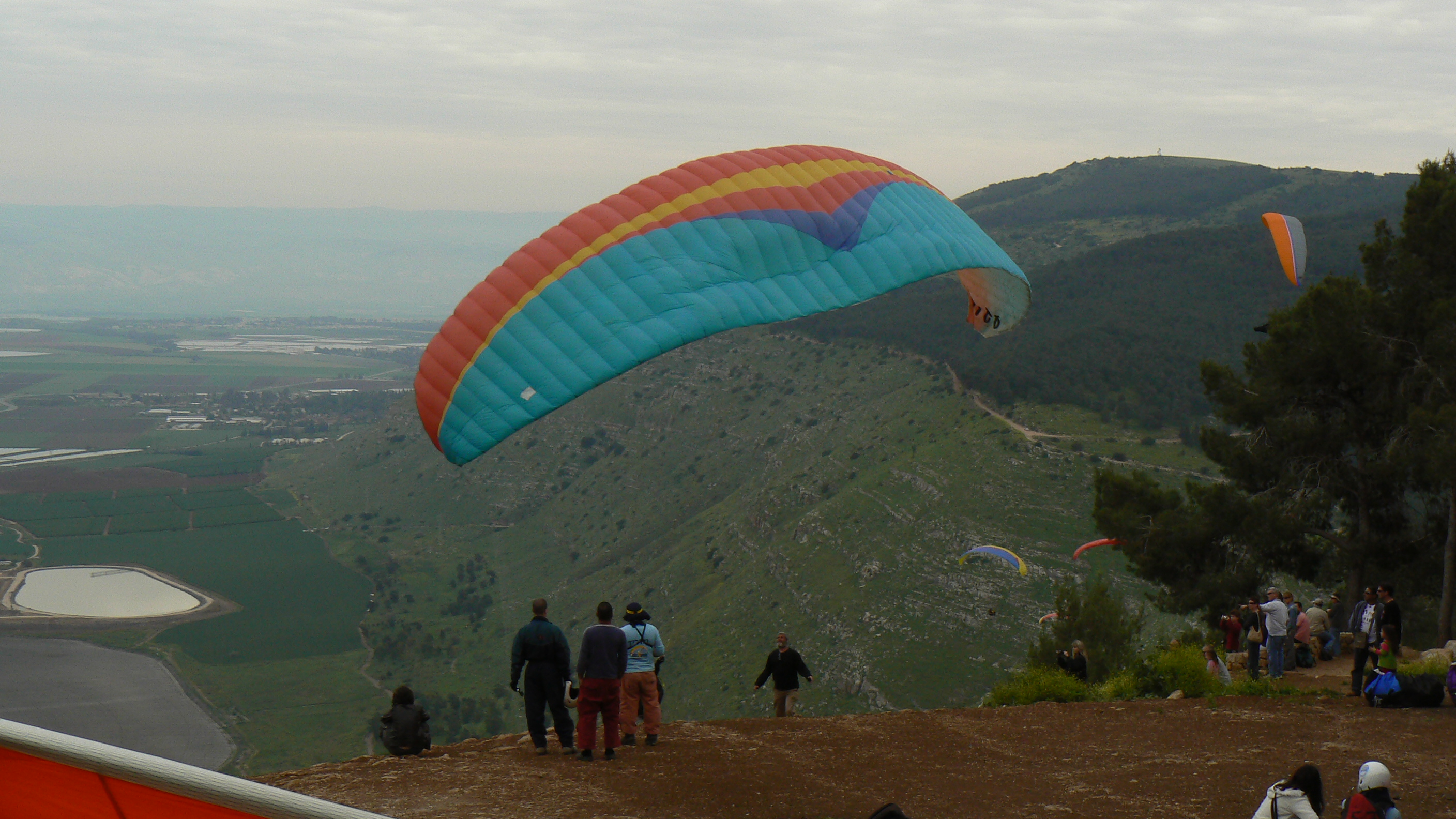 Mount Gilboa